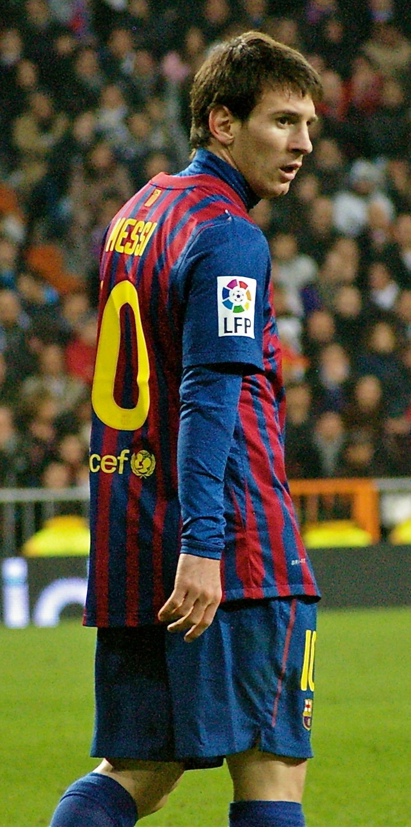 Lionel Messi in a match against Real Madrid, Copa del Rey, January 18th 2012